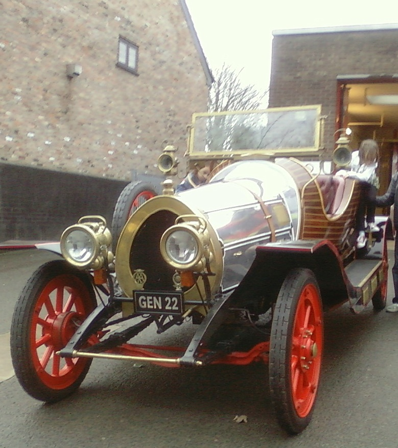 Replica ("GEN 22") of car from film Chitty Chitty Bang Bang (original had "GEN 11"). Made ca 2000 by Tony Green,[1] Ford 3-litre V6, certified by the MGM labs, used for commercial photography.[2] Sold for GBP 250,000 around 2007. Up for auction in 2011.[3]